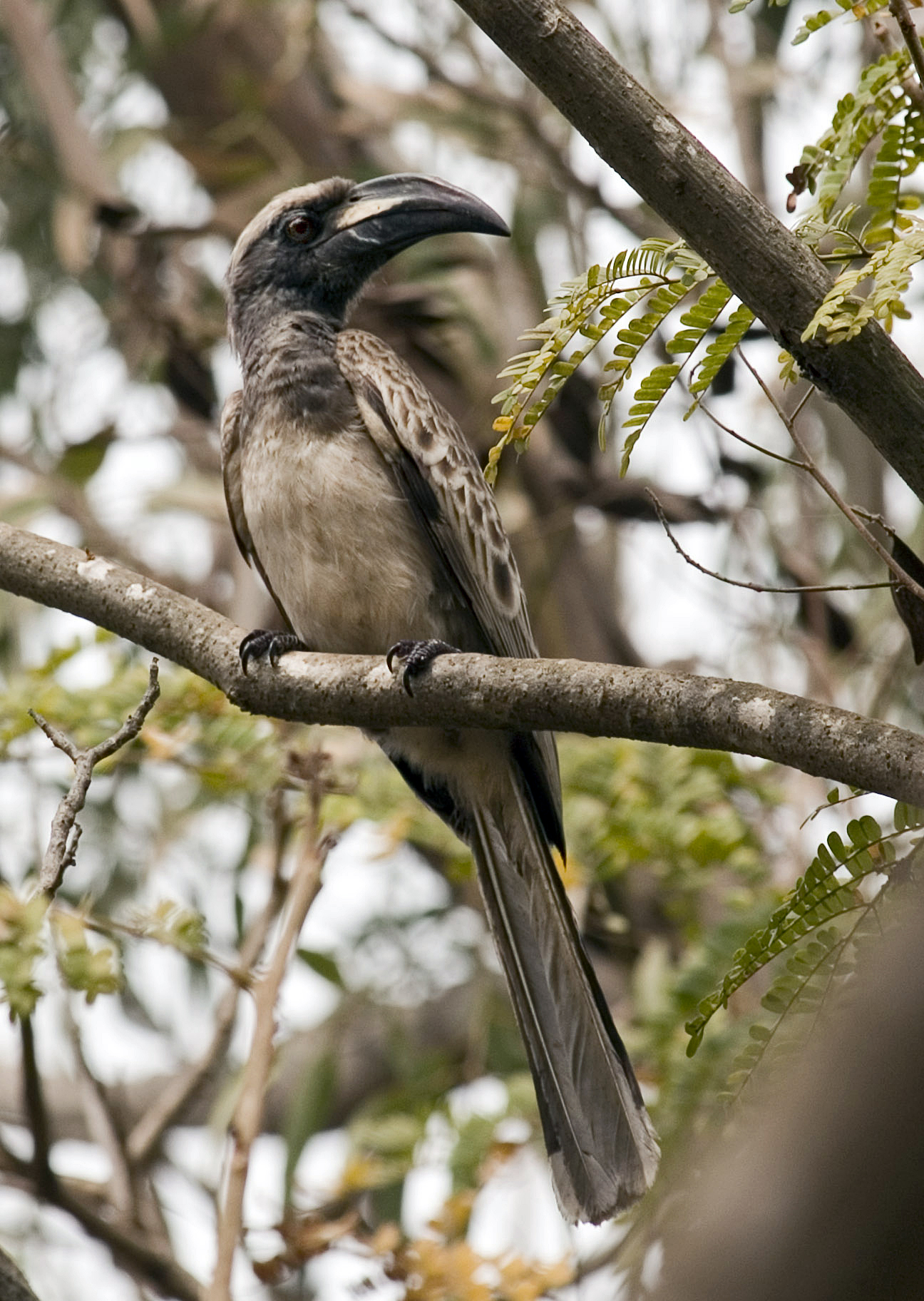 African Grey Hornbill in Parc Forestier de Hann, Senegal.